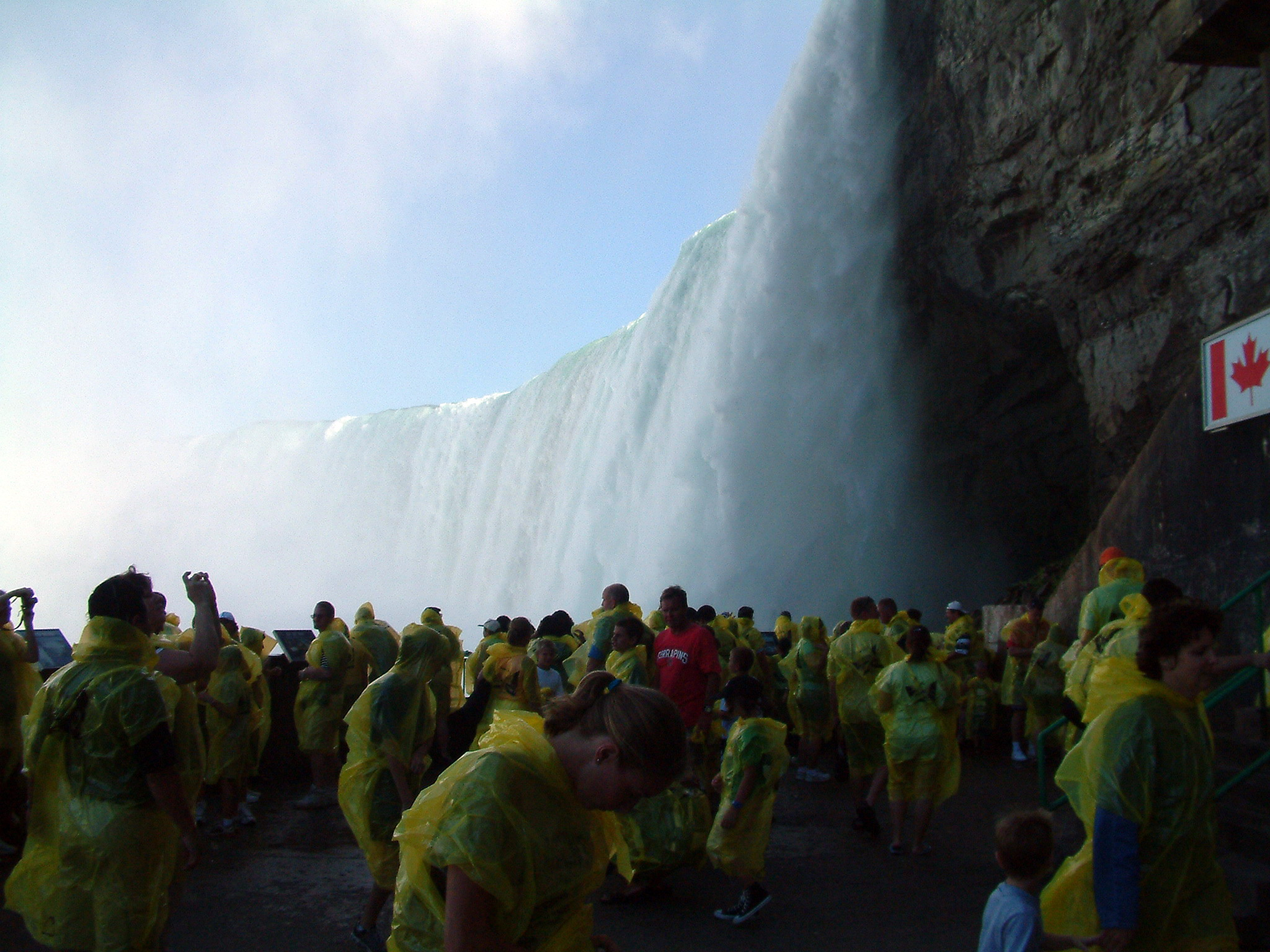 Photo taken August of 2006 by Nora Vass.